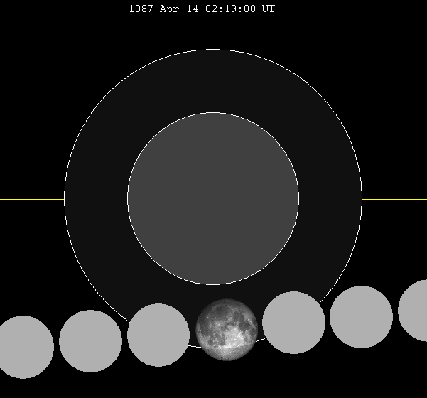 April 1987 lunar eclipse chart of moon's path through the earth's shadow. thumb